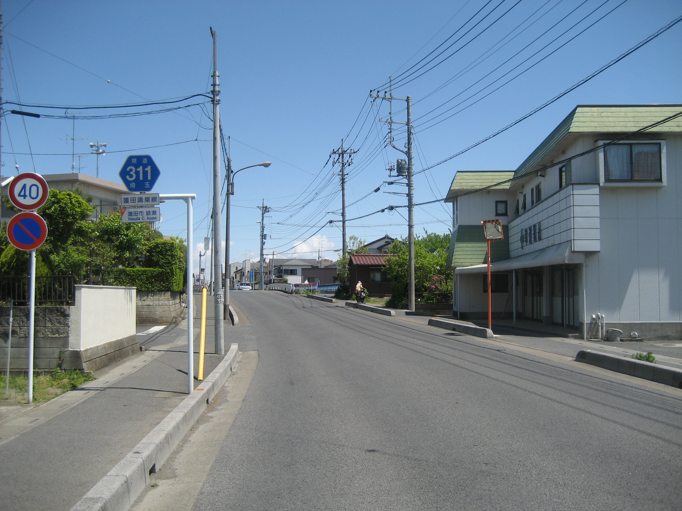 The Saitama Prefectural Road Route 311 in Ayase, Hasuda City